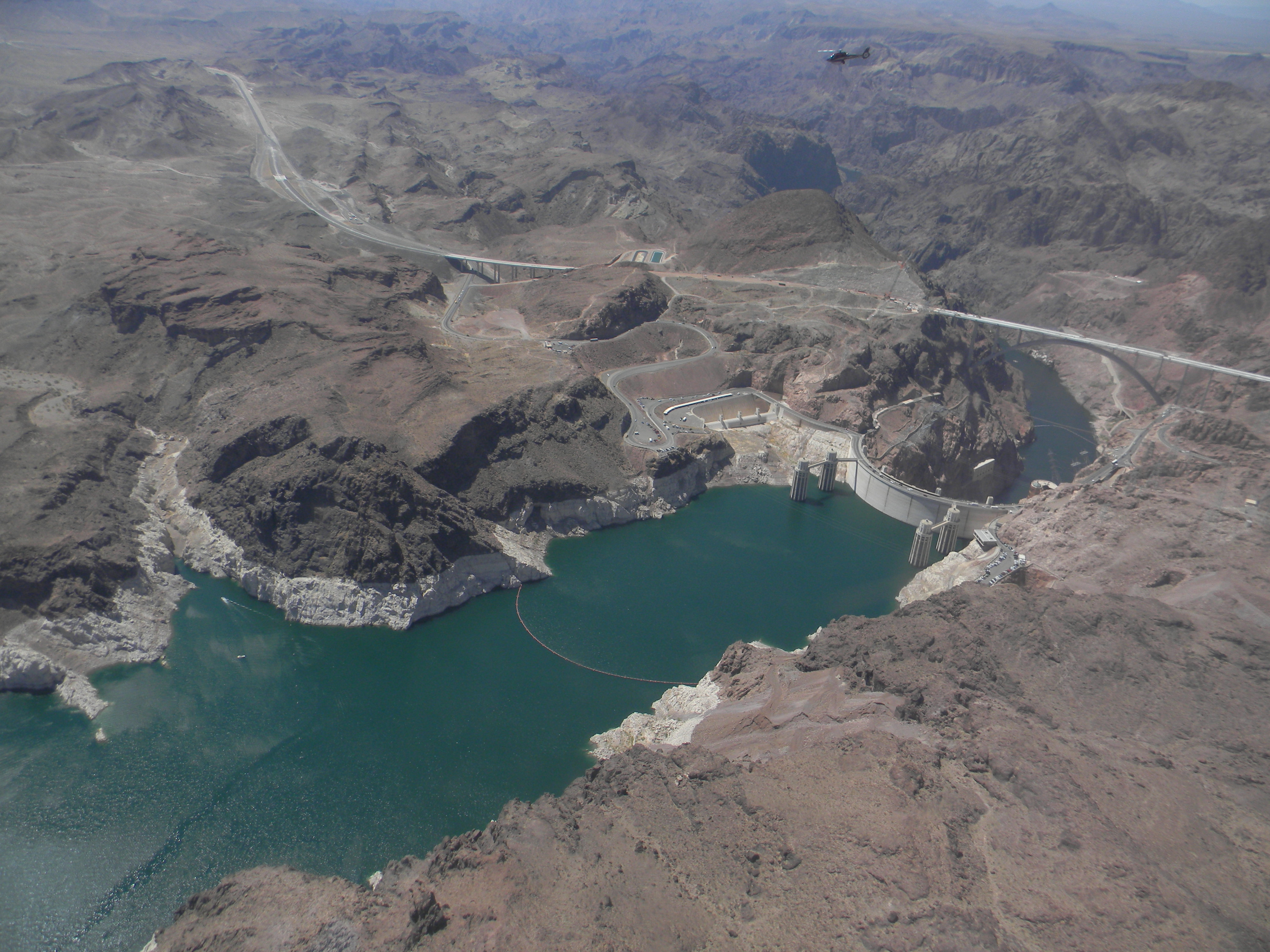 Hoover Dam Aerial View, seen from Nevada side